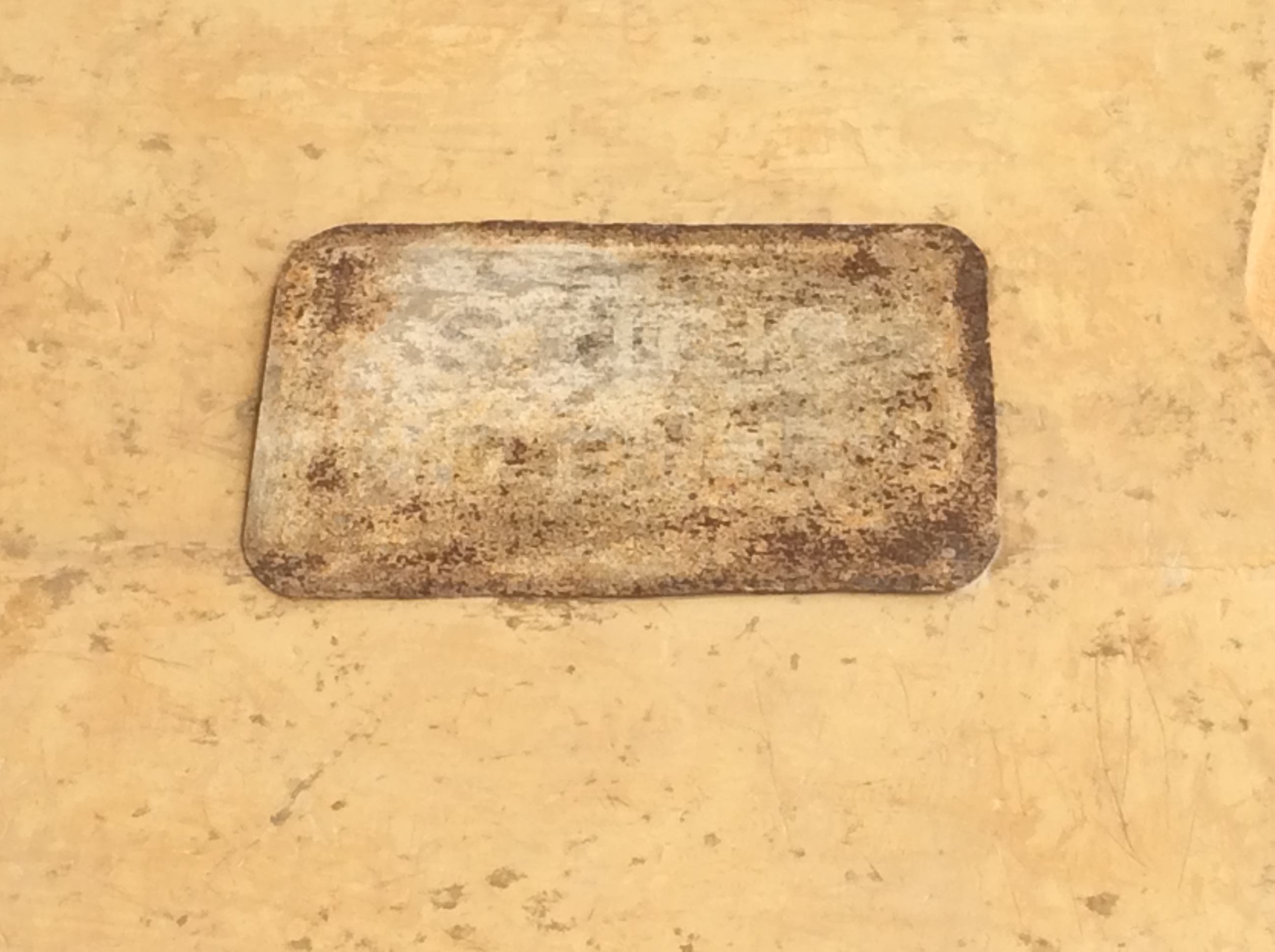 Valletta French period street sign, Bibiotecha National